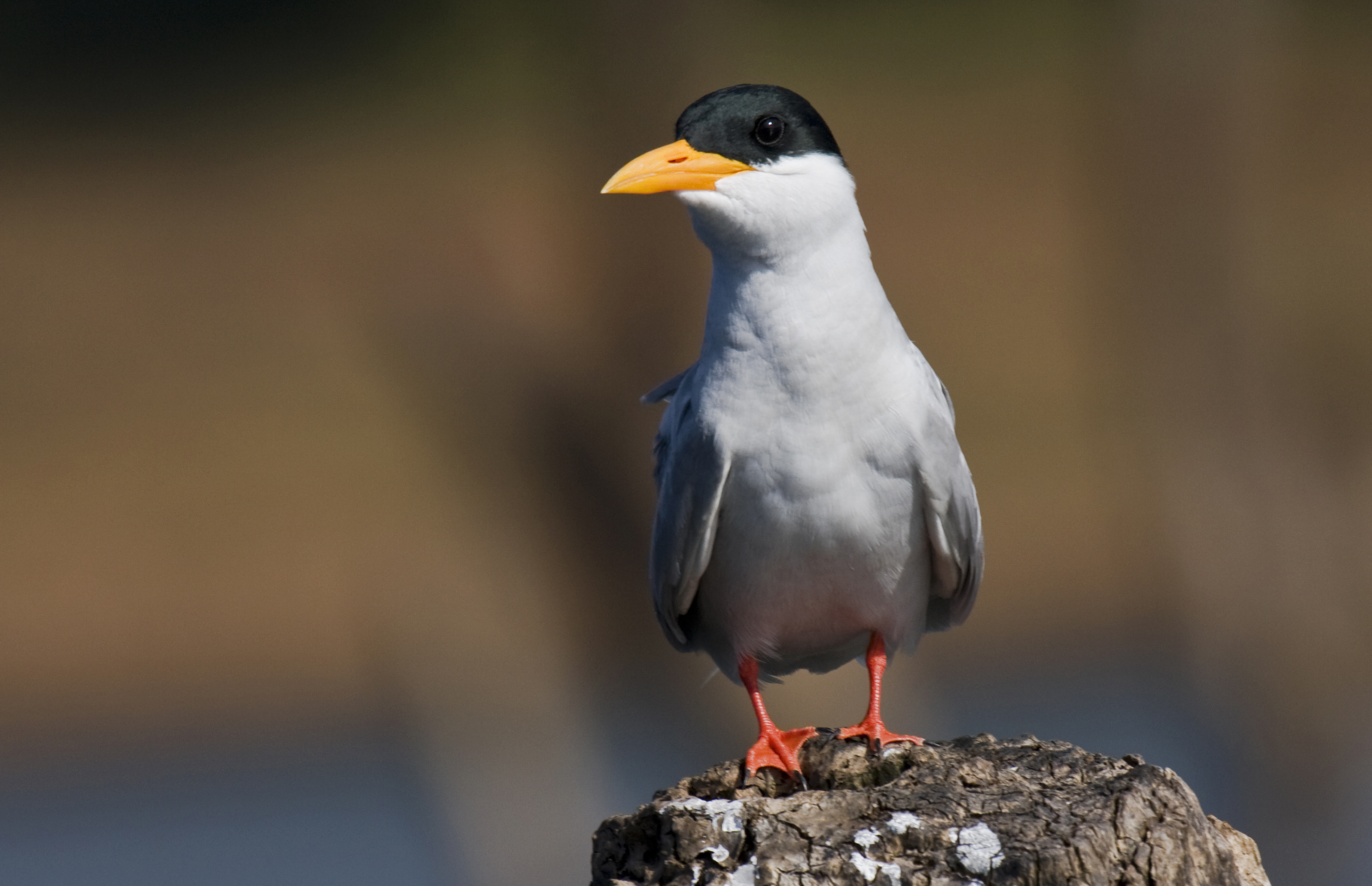 Indian River Tern or River Tern (Sterna aurantia).